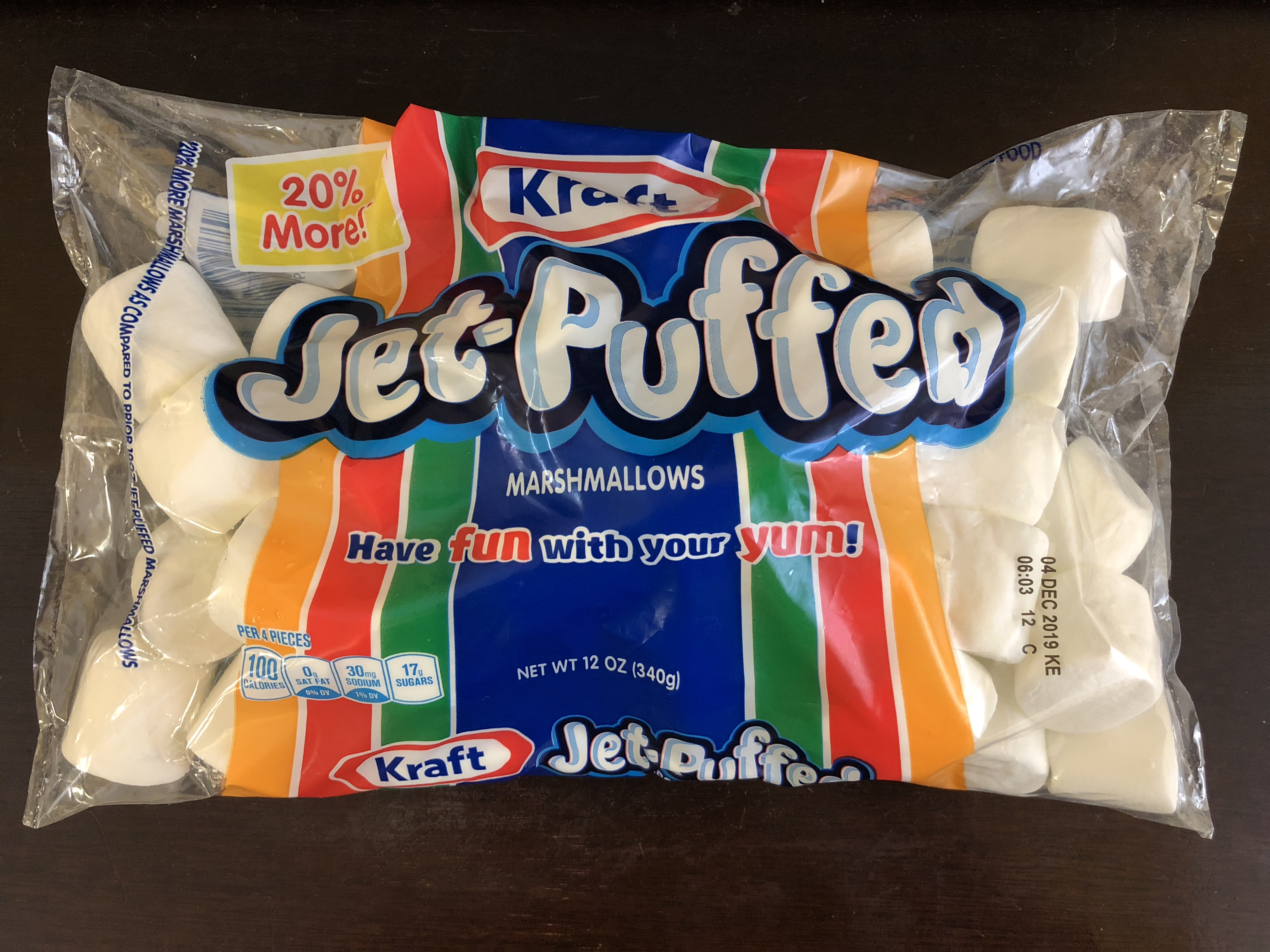 A bag of Kraft Jet Puffed Marshmallows in the Franklin Farm section of Oak Hill, Fairfax County, Virginia